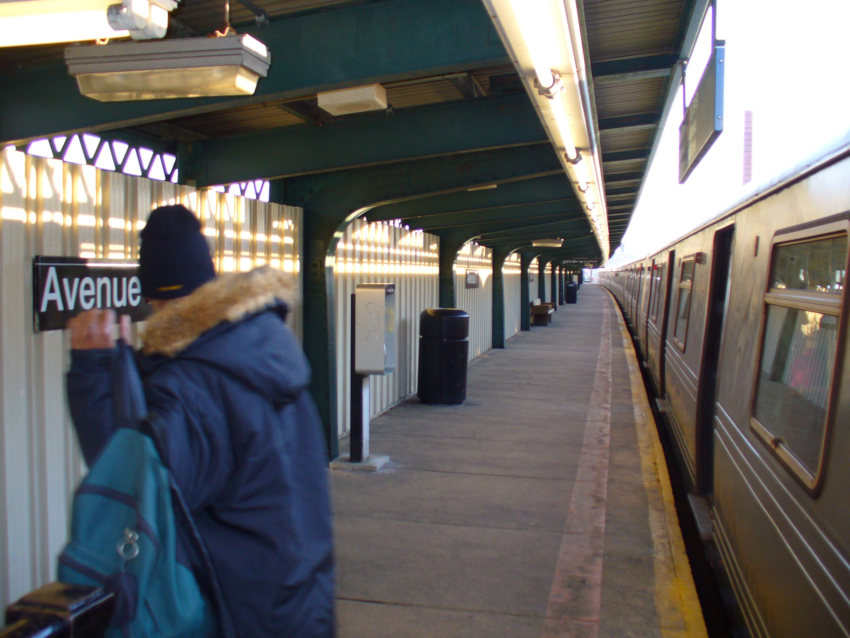 Avenue X F Line NYC Subway Station by David Shankbone